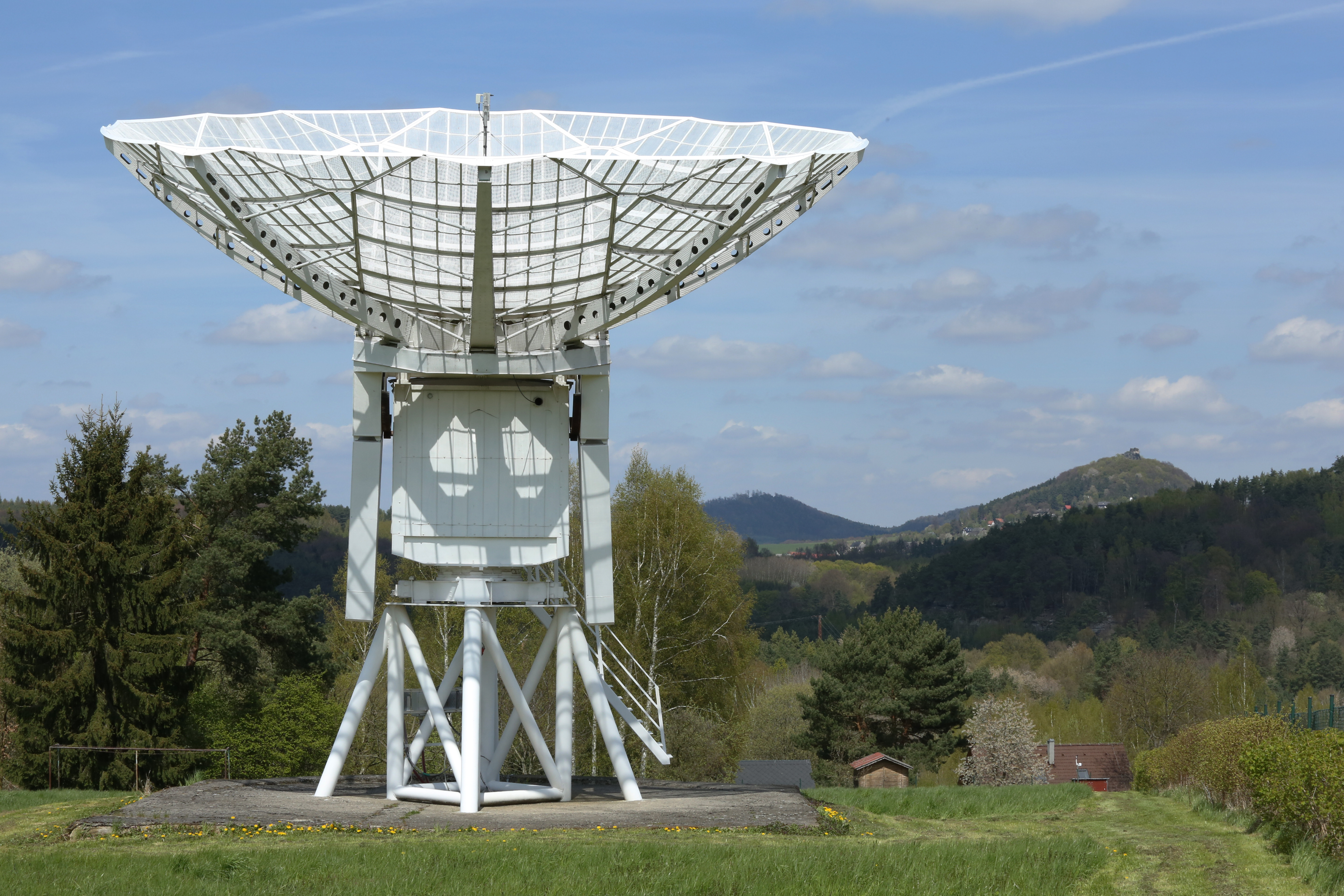 Panská Ves observatory near Dubá town, Liberec Region, Czech Republic.